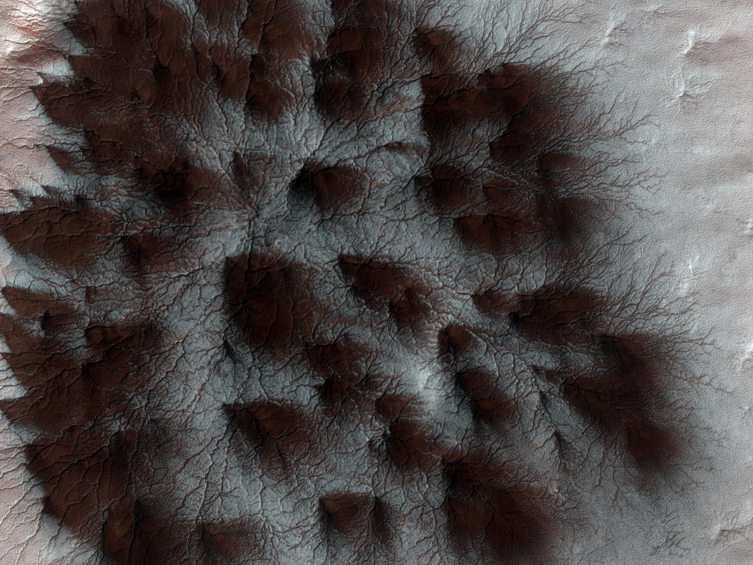 Mars' seasonal cap of carbon dioxide ice has eroded many beautiful terrains as it sublimates (goes directly from ice to vapor) every spring. In the region where the High Resolution Imaging Science Experiment (HiRISE) camera on NASA's Mars Reconnaissance Orbiter took this image, we see troughs that form a starburst pattern. In other areas these radial troughs have been refered to as spiders, simply because of their shape. In this region the pattern looks more dendritic as channels branch out numerous times as they get further from the center. The troughs are believed to be formed by gas flowing beneath the seasonal ice to openings where the gas escapes, carrying along dust from the surface below. The dust falls to the surface of the ice in fan-shaped deposits. This image, covering an area about 1 kilometer (0.6 mile) across, is a portion of the HiRISE observation cataloguedas ESP_011842_0980, taken on Feb. 4, 2009. The observation is centered at 81.8 degrees south latitude, 76.2 degrees east longitude. The image was taken at a local Mars time of 4:56 PM and the scene is illuminated from the west with a solar incidence angle of 78 degrees, thus the sun was about 12 degrees above the horizon. At a solar longitude of 203.6 degrees, the season on Mars is northern autumn. NASA's Jet Propulsion Laboratory, a division of the California Institute of Technology in Pasadena, manages the Mars Reconnaissance Orbiter for NASA's Science Mission Directorate, Washington. Lockheed Martin Space Systems, Denver, is the prime contractor for the project and built the spacecraft. The High Resolution Imaging Science Experiment is operated by the University of Arizona, Tucson, and the instrument was built by Ball Aerospace & Technologies Corp., Boulder, Colo.